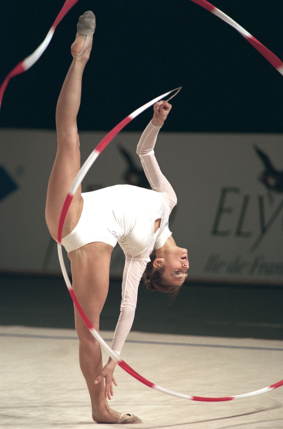 Viktória FRÁTER (HUN) THIAIS (France) tournament 25-26/03/2000